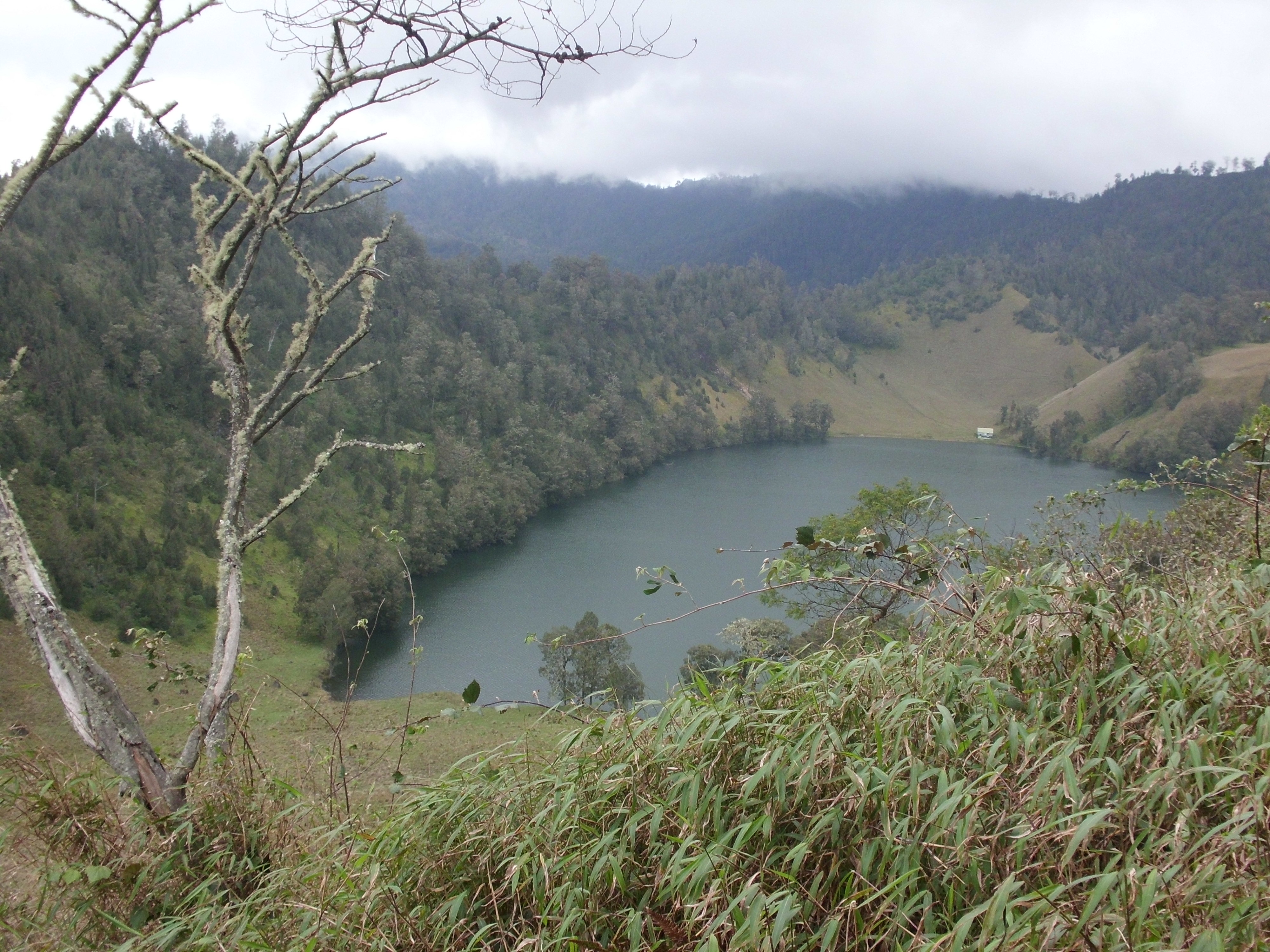 Ranu Kumbolo